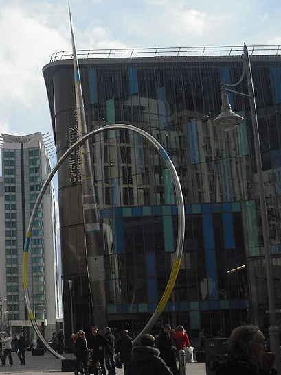 Alliance sculpture in central Cardiff, Wales